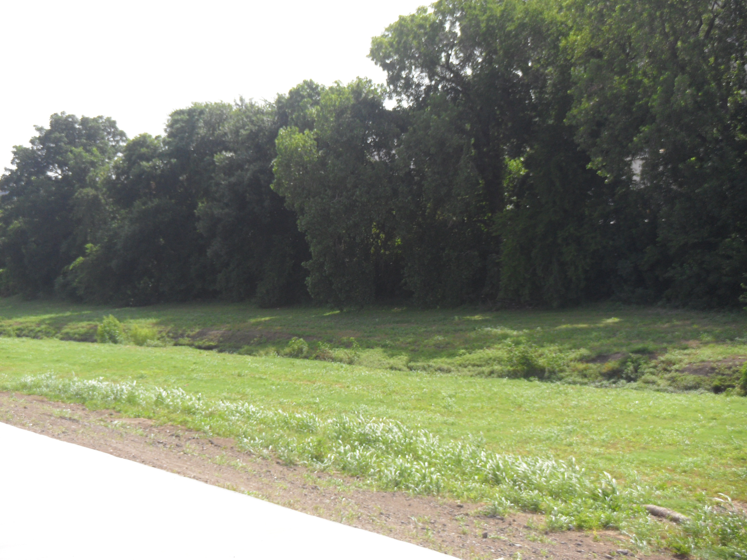 Trinity Strand Trail in Dallas, Texas